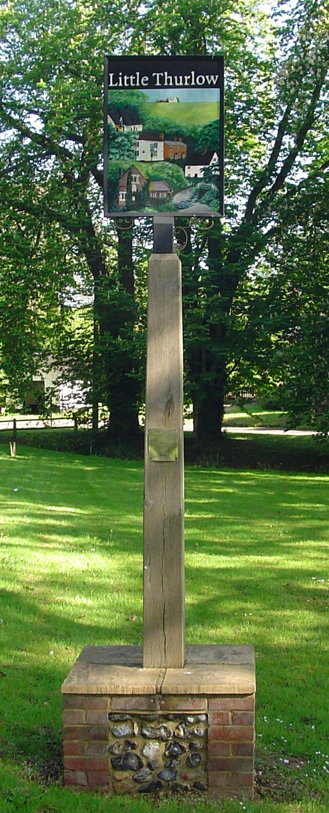 Signpost in Little Thurlow